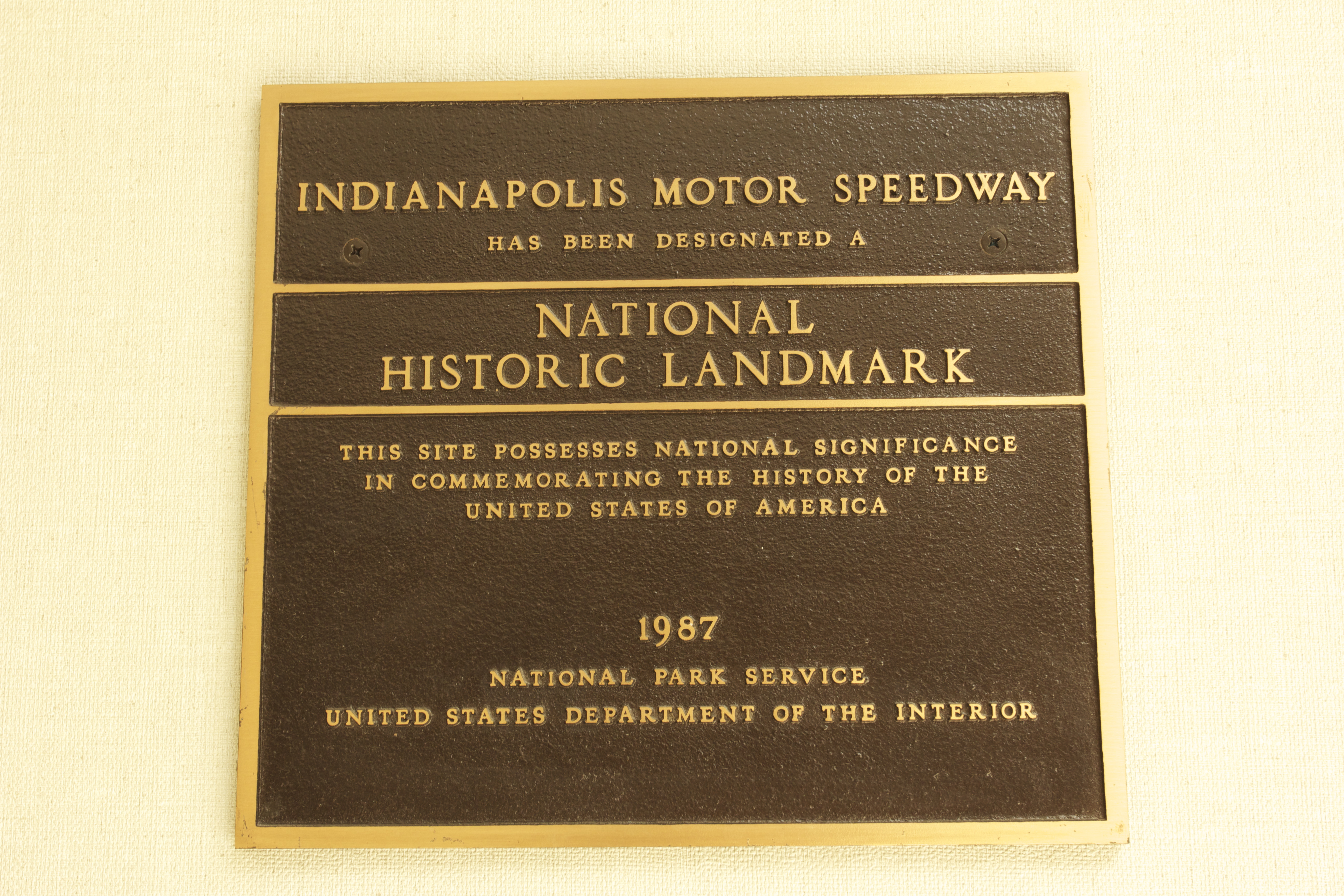 IMS NHL Plaque